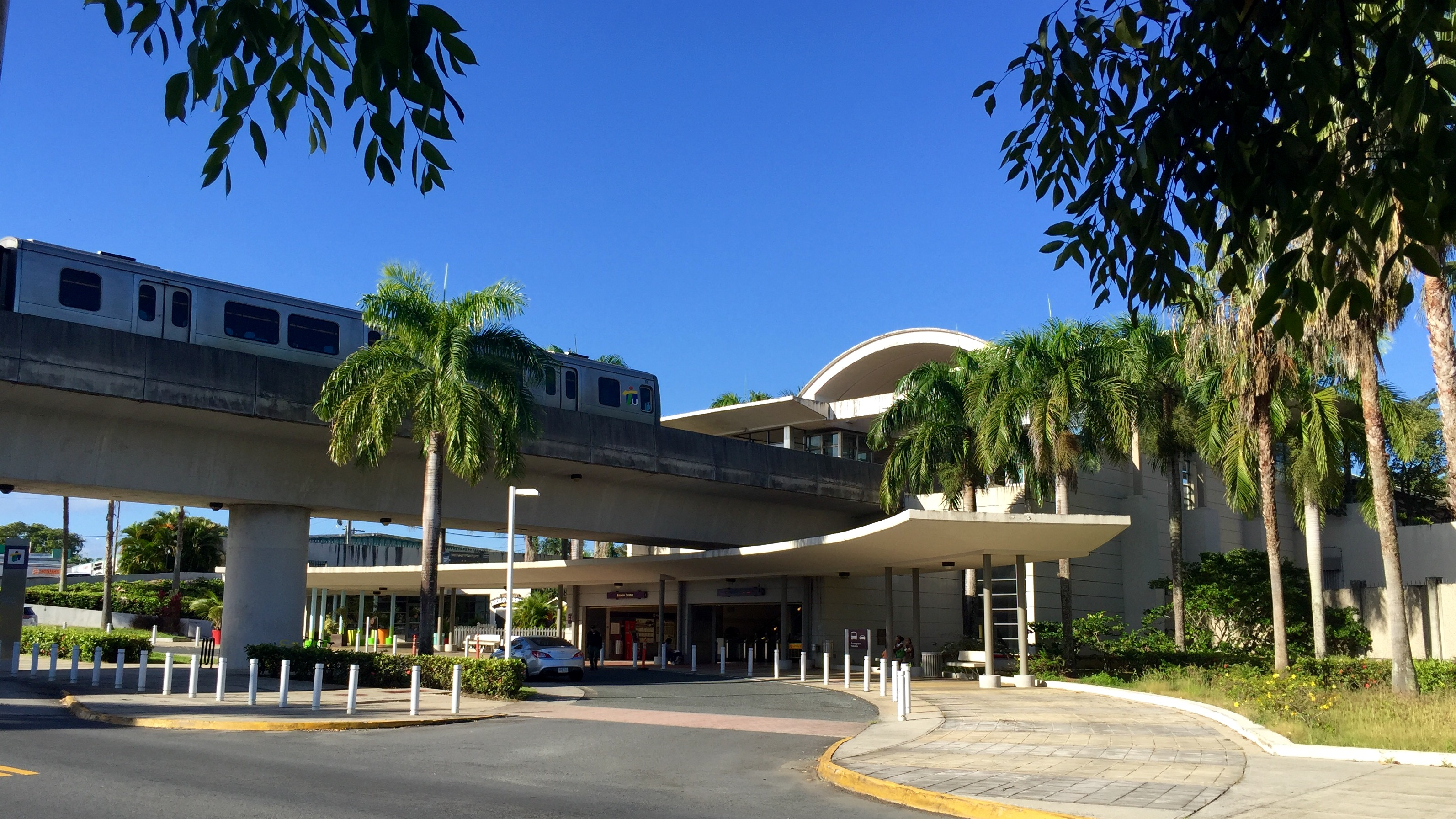 San Juan Tren Urbano Torrimar station